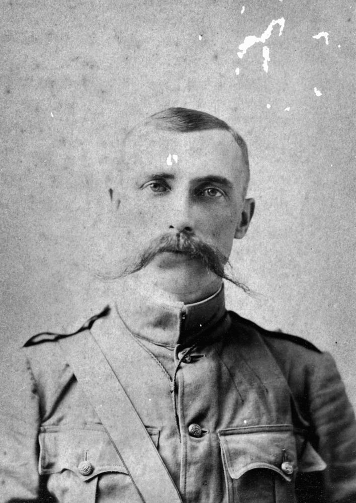 Colin Dunlop Wilson Rankin, 2nd Queensland Mounted Infantry Contingent, Boer War